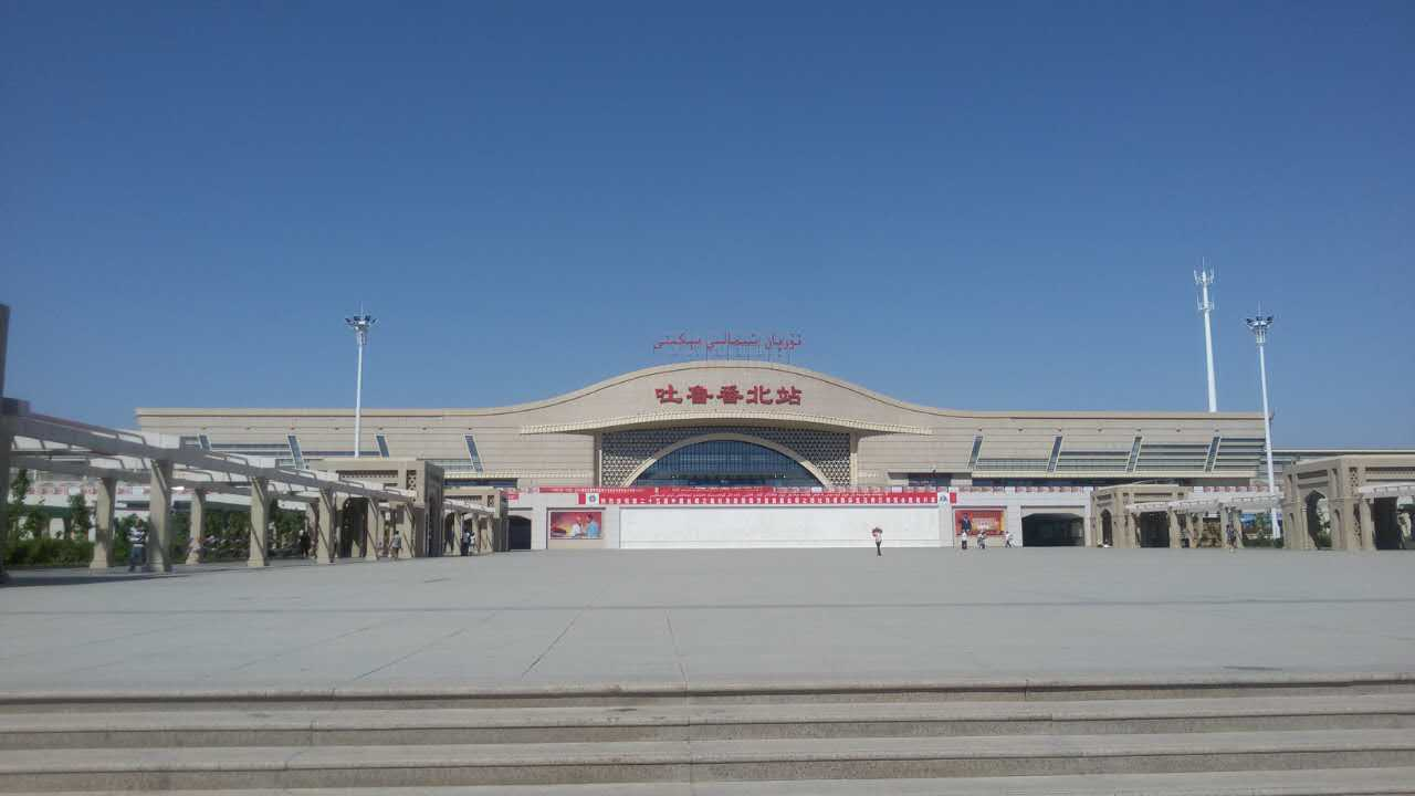 Turpan North Railway Station in Turpan, Xinjiang in 2016